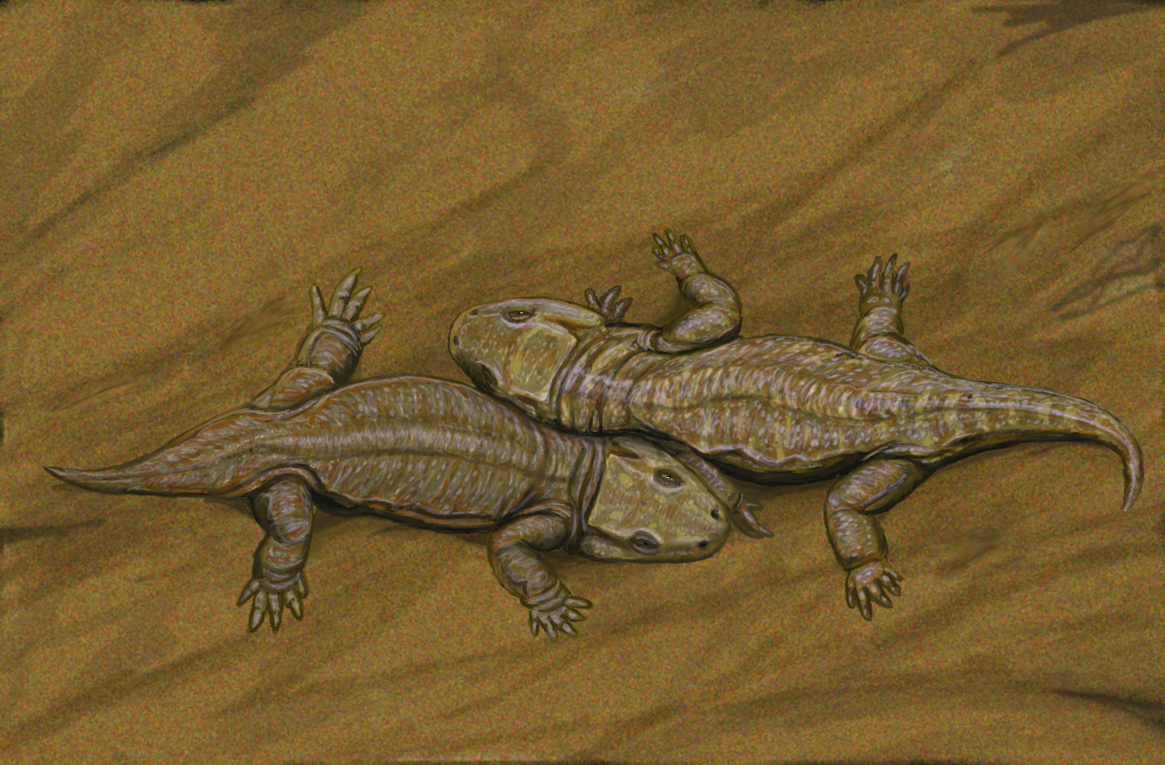 "Tambach lovers" - pair of Seymouria sanjuanensis from Early Permian of Germany